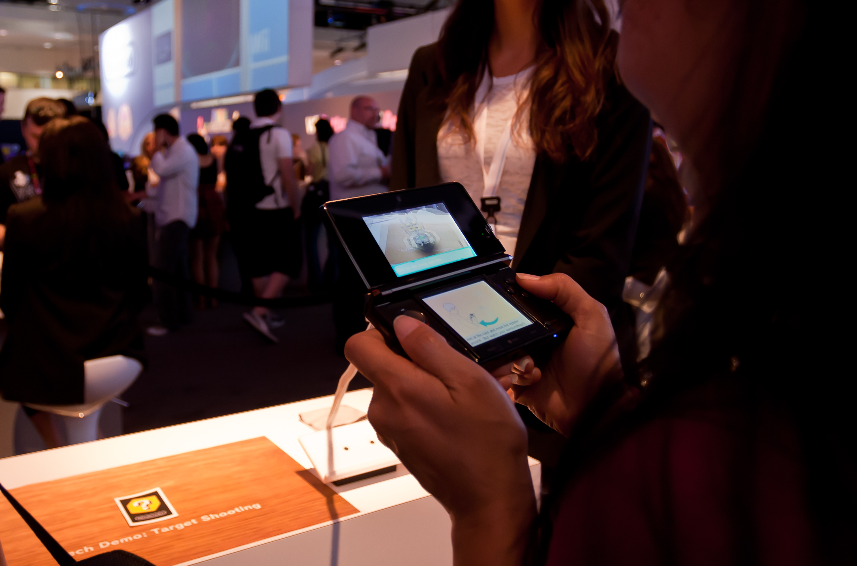 Nintendo 3DS "Target Shooting" hands-on augmented reality technology demonstration (with autostereoscopic effect) at the 2010 Electronic Entertainment Expo